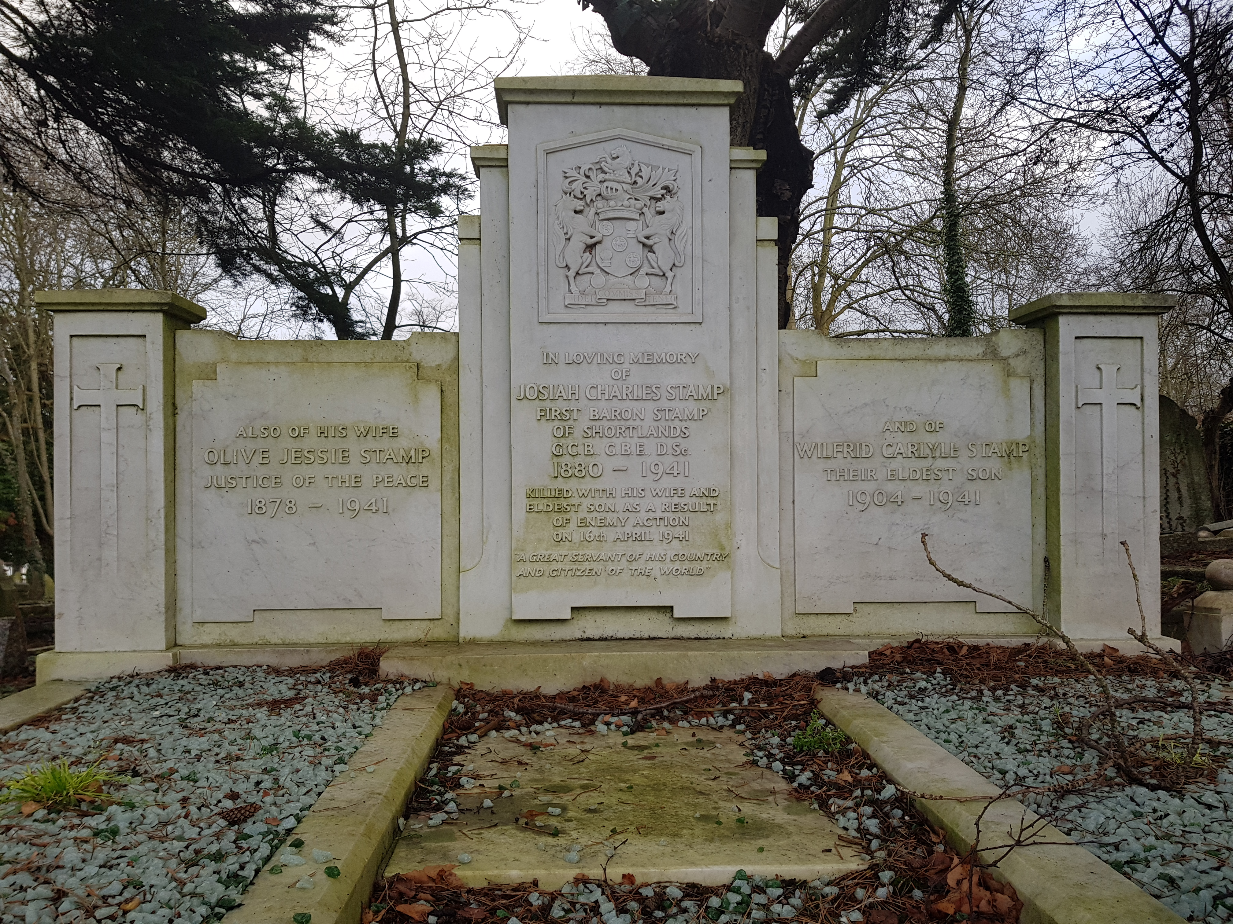 Grave of Josiah Stamp, his wife Olive Stamp, and their eldest son Wilfred Stamp, Beckenham Cemetery, London. The family were killed simultaneously by a direct hit from a German bomb on 16 April 1941. Owing to a legal fiction in English law regarding simultaneous deaths, the deaths were deemed to have taken place in order of the ages of the deceased; as a consequence Wilfrid Stamp was formally considered to have held his father's hereditary peerage for a fraction of a second, making him officially the shortest-serving parliamentarian in history.